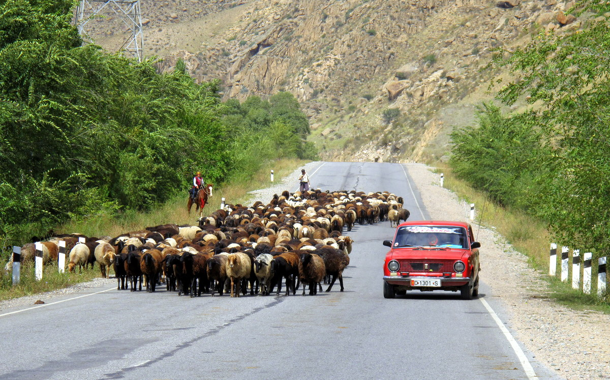 I have videos of us driving through herds of cows and horses.